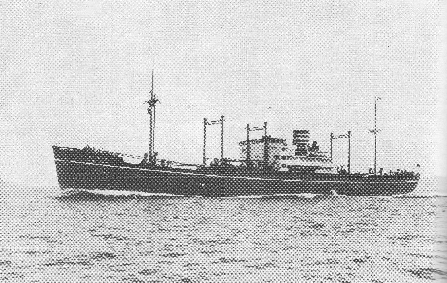 NYK Line "Noshiro Maru"(Auxiliary cruisers of Japan)